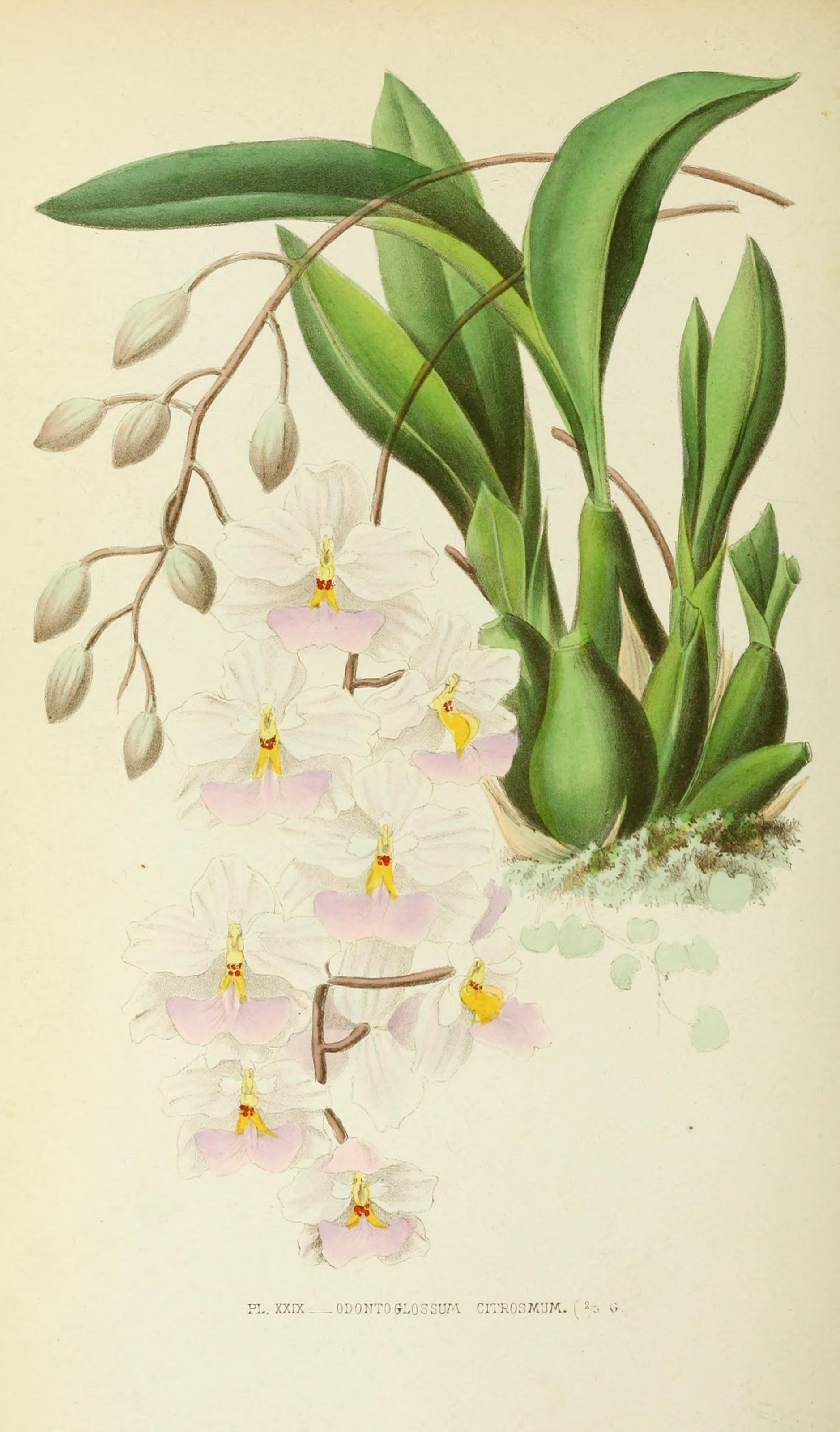 Les orchidées,. Paris,J. Rothschild,1880.. This botanical illustration of orchids is from 1880 publication by E. De Puydt, Les Orchidees, Editor - J. Rothschild; The scientific botanical name of each orchid is at the bottom of the plate. Archived at (1) Biodiversity Heritage Library; (2) Botanical Museum of Harvard University. For text and discussion The photograph published in 1880 qualifies for license under PD-Art